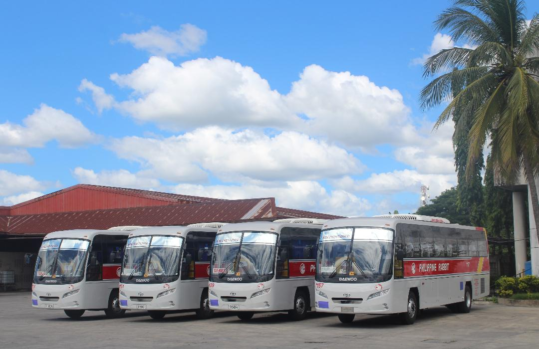 SR Daewoo BV115 at Tarlac Terminal